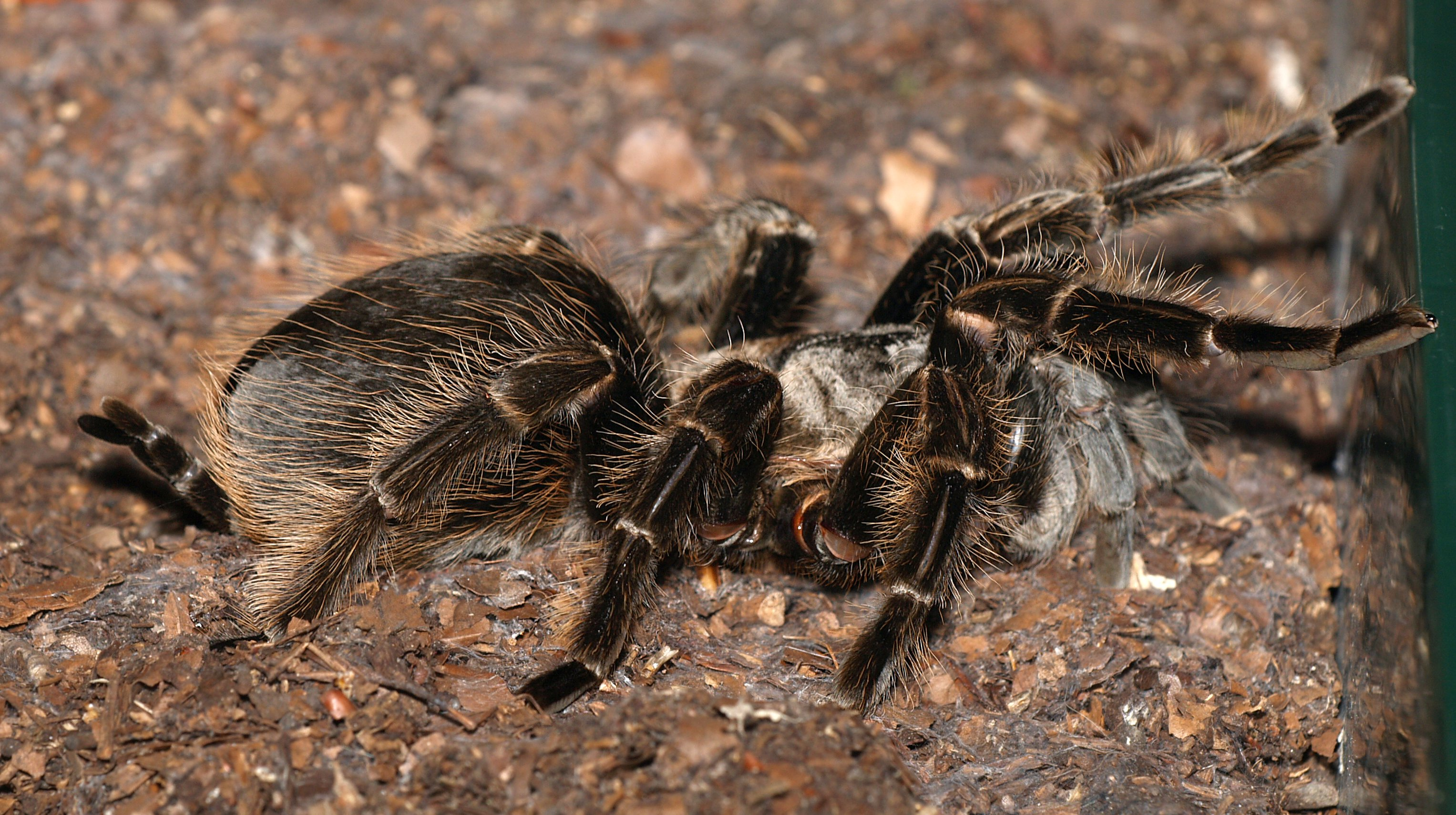 female Brachypelma albopilosum, c. ten years old, from Cologne Zoo, Germany.